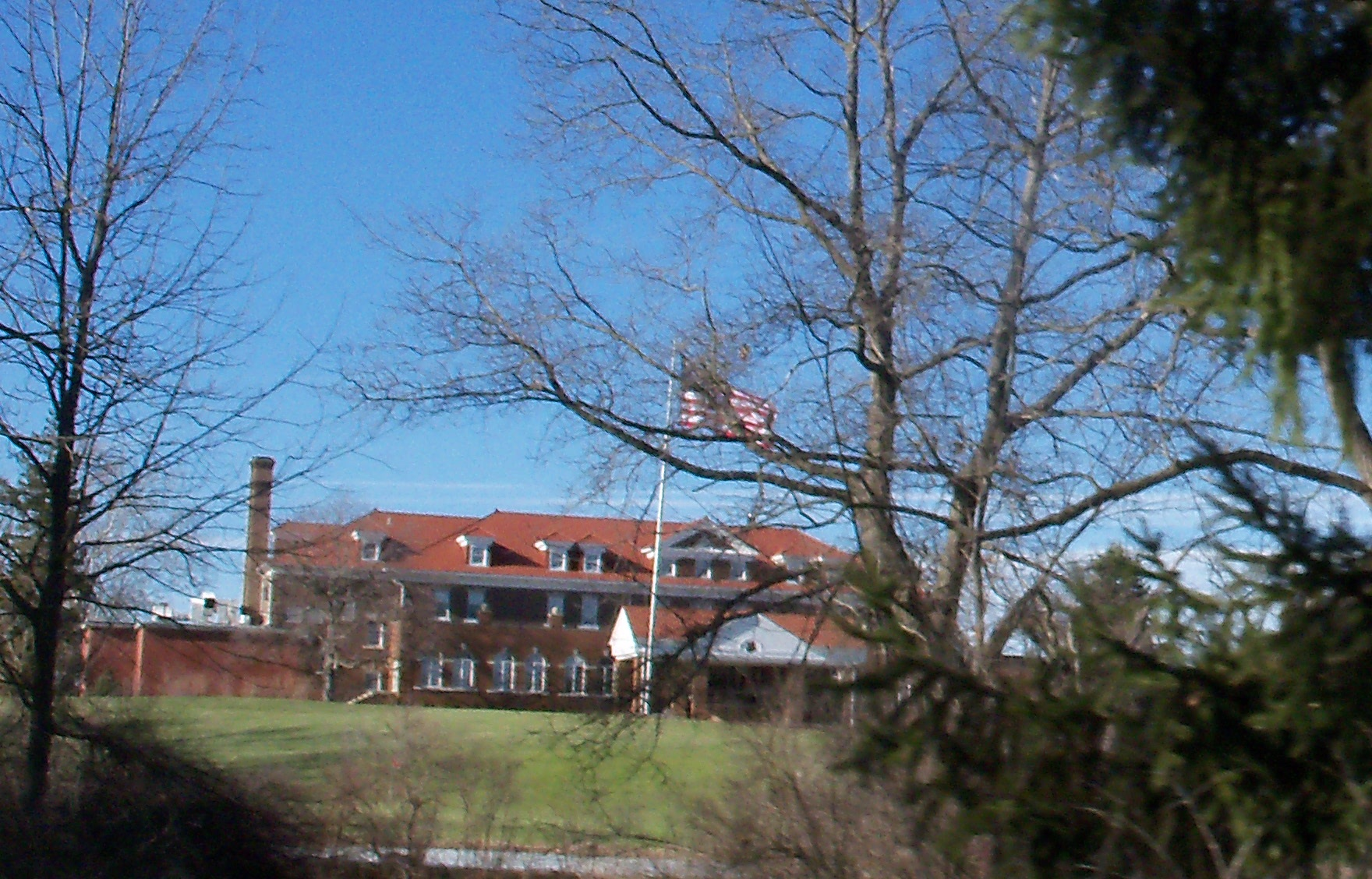 a golf course clubhouse in stark co ohio